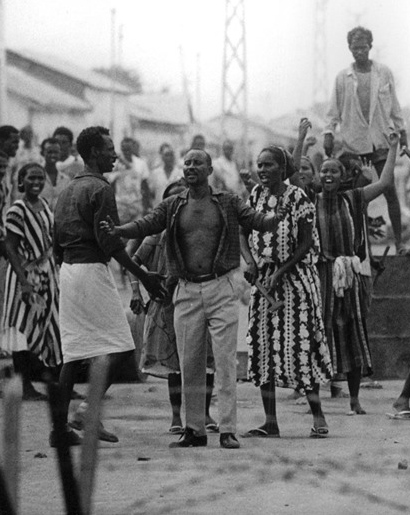 A demonstration in Djibouti, Africa, 1967.